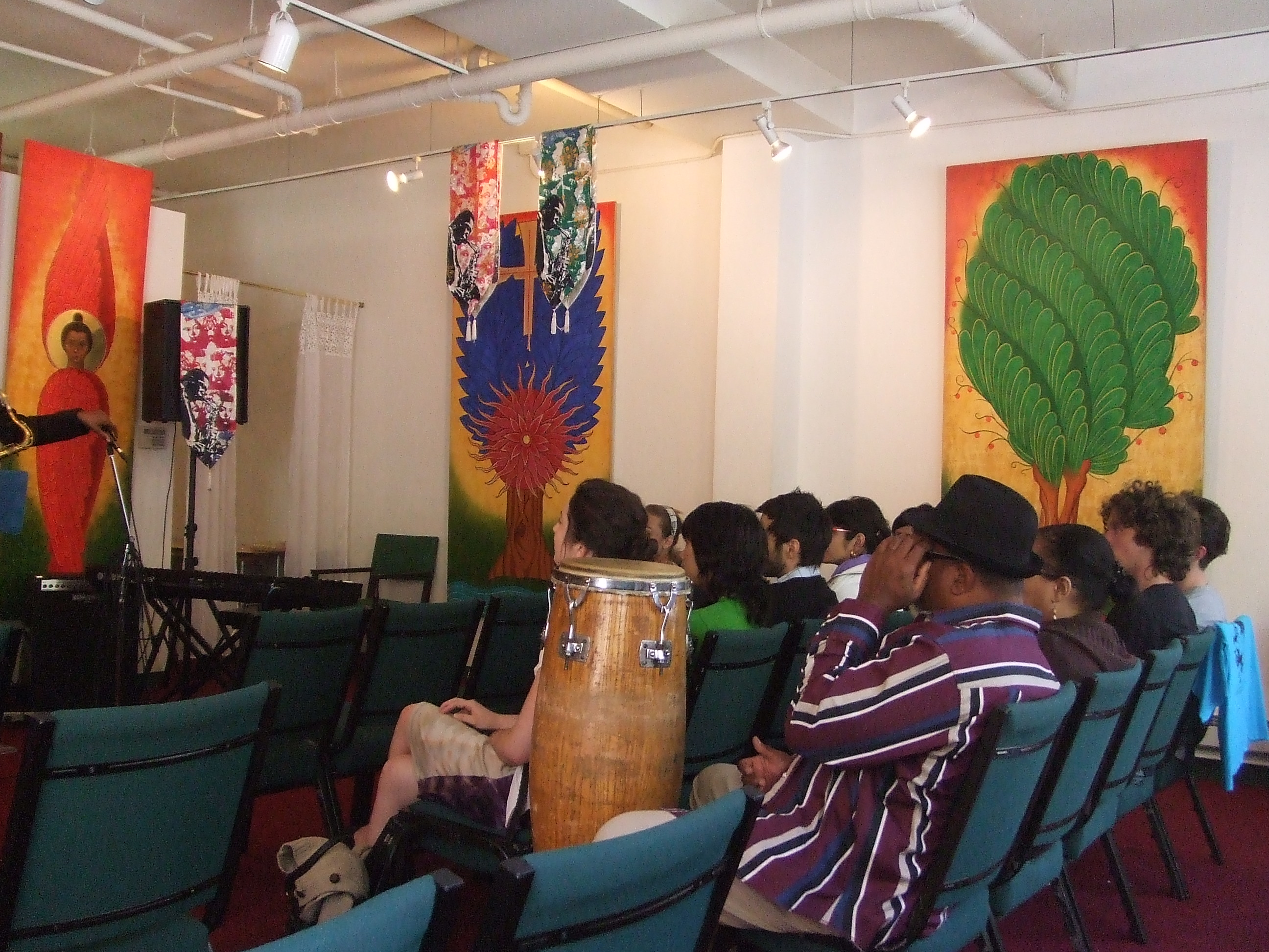 Coltrane Church in San Francisco, Sunday service